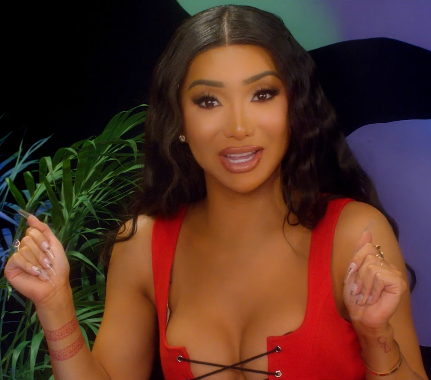 American YouTube star and makeup artist Nikita Dragun & Kim Petras: In Conversation | PRIDE 2019.